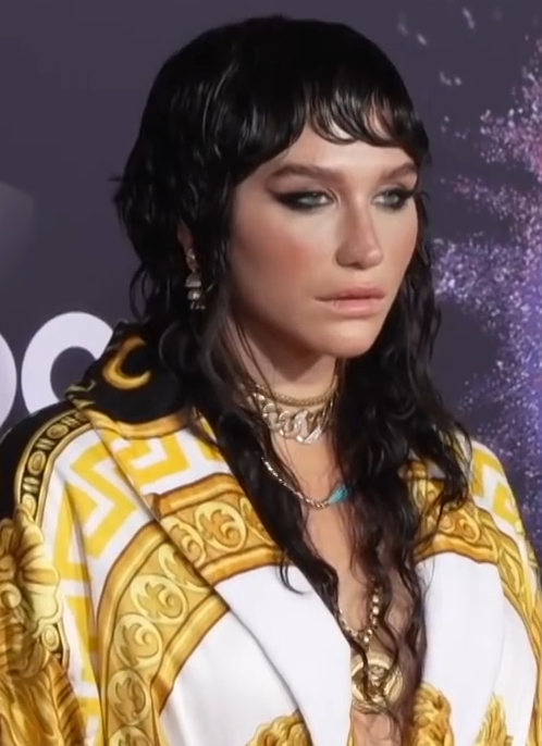 Kesha at The 2019 American Music Awards red carpet